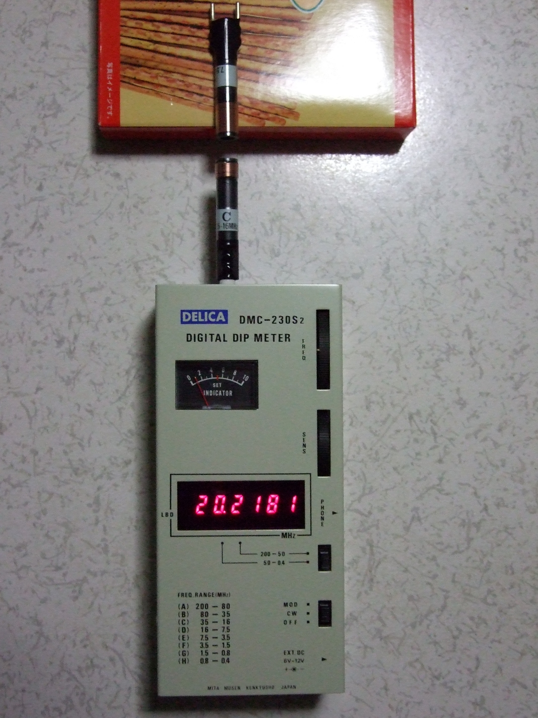 A dipmeter measuring the self-resonant frequency of one of accompanied probe coils. (Mitamusenkenkyūsho 三田無線研究所株式会社 DELICA DMC-230S2) The indicator is "dipped".